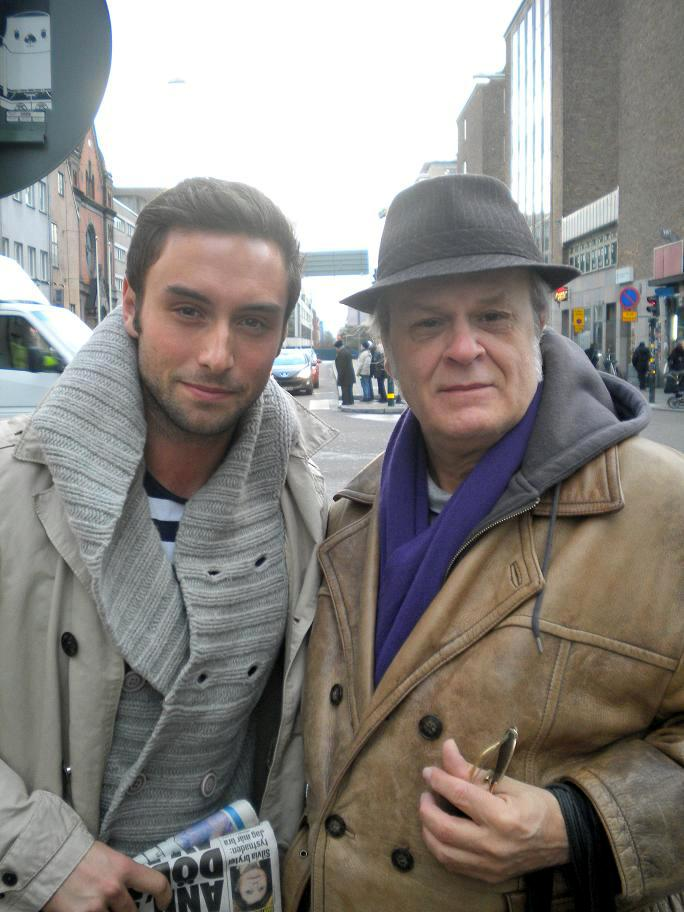 Måns Zelmerlöw and Jacob Truedson Demitz (Lars Jacob), as released by image creator CabarEng; Place: Götgatan, Stockholm, Sweden